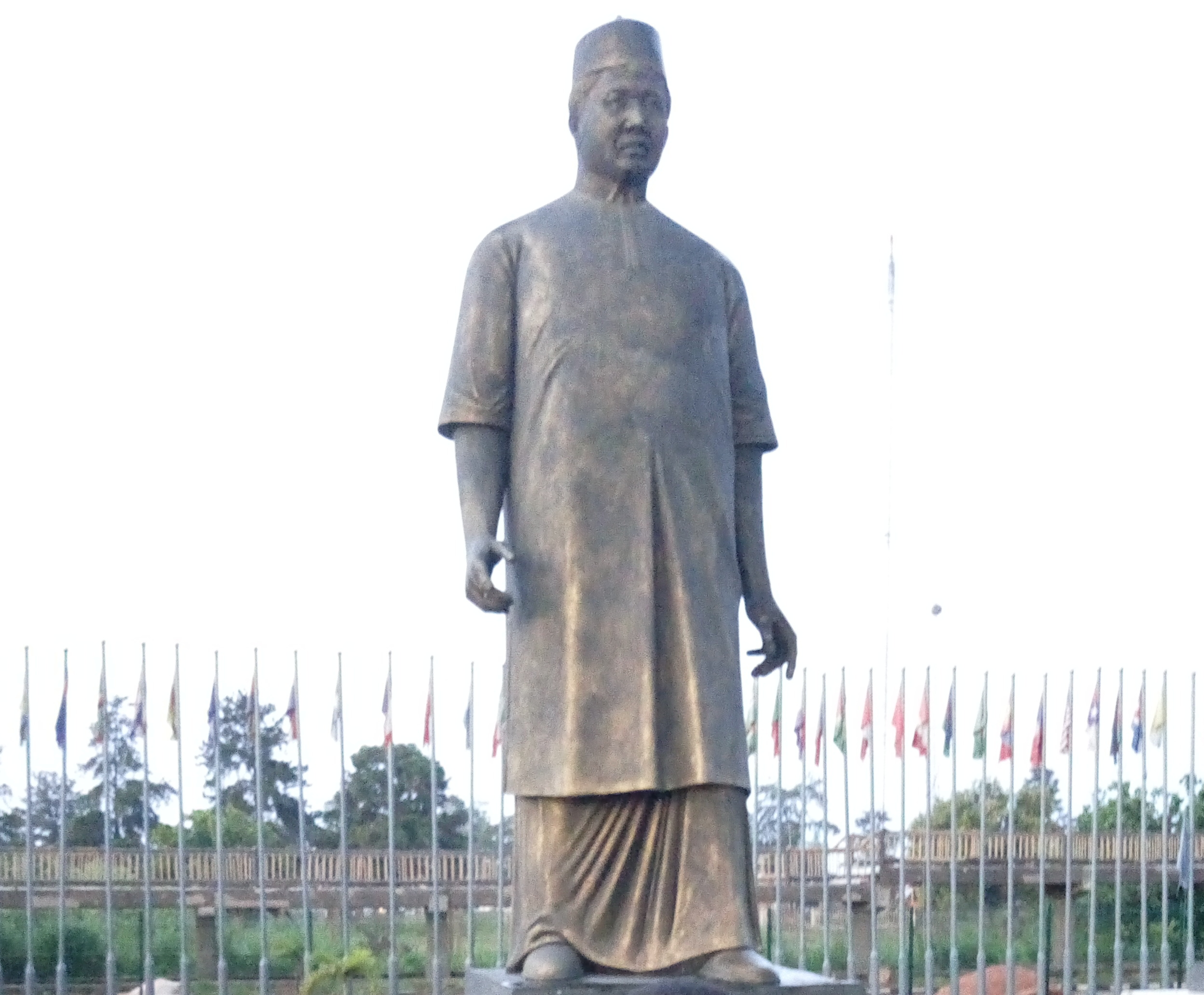 One time Vice President of Nigeria and Architect per excellence